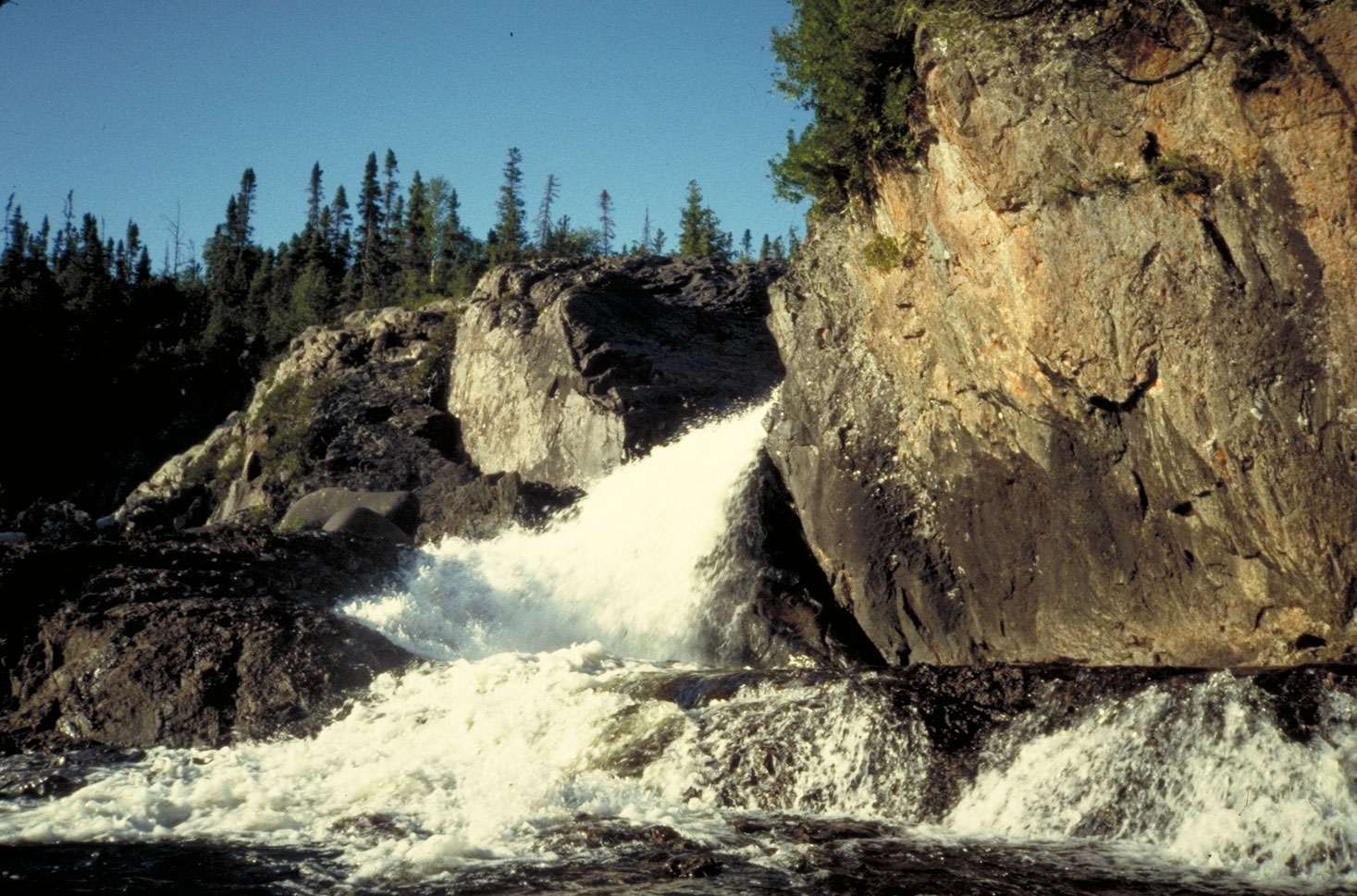 Waterfalls of Ontario's Cascade River in Canada's Pukaskwa National Park on Lake Superior